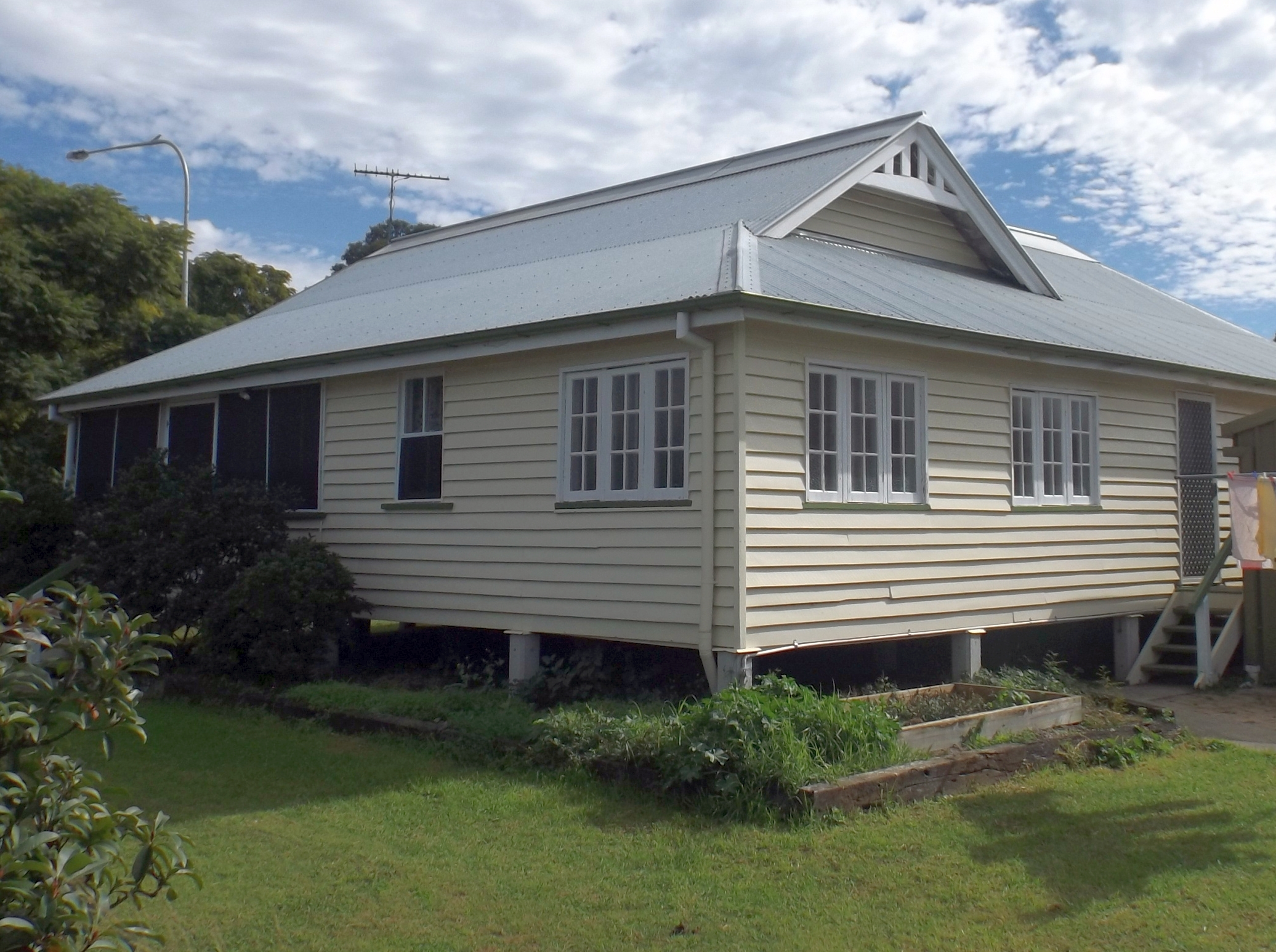 Photo of the rear of Rosewood Courthouse at Rosewood, Ipswich, Queensland, Australia.